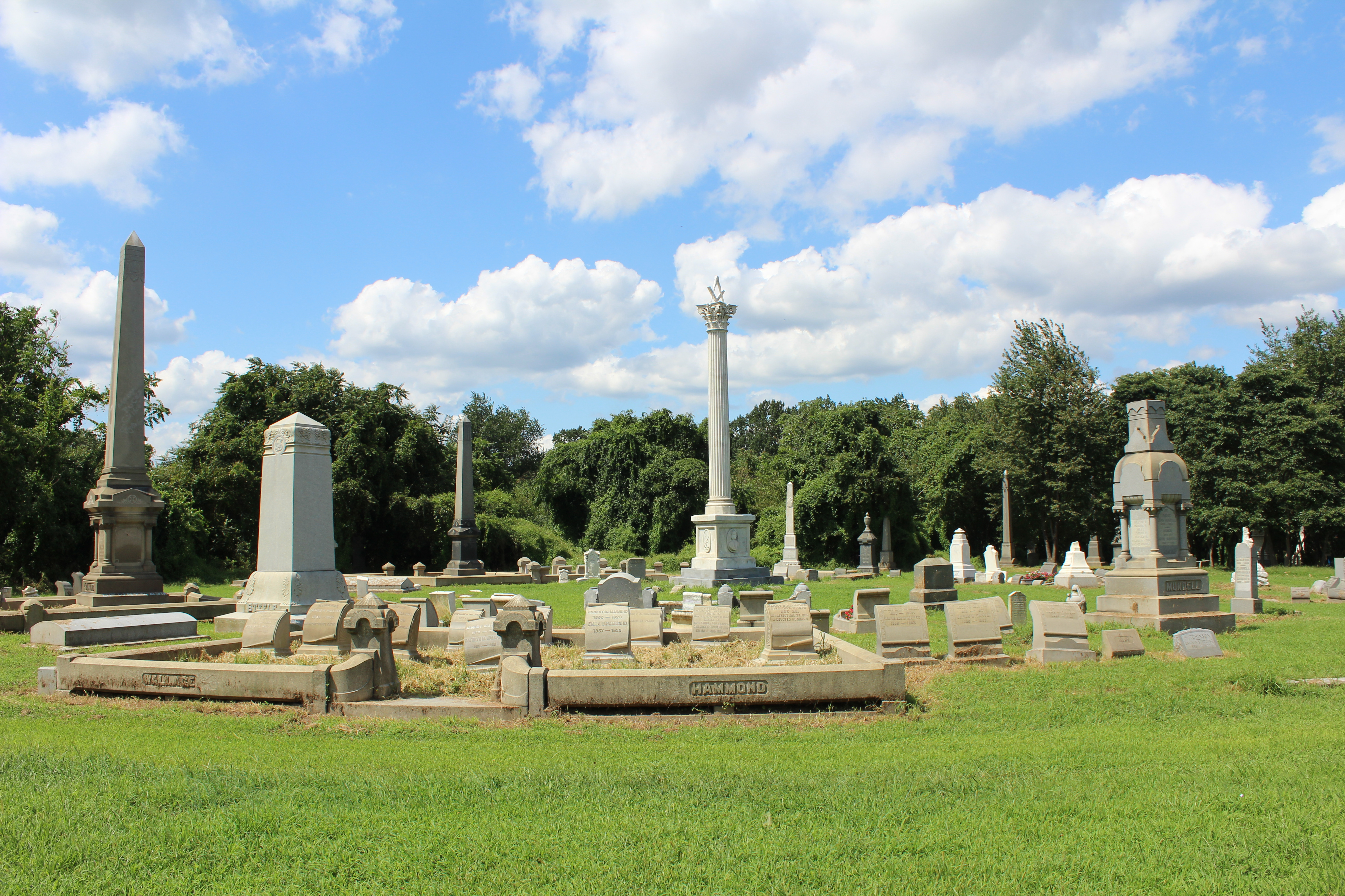 The Circle of St. John with the Schnider Monument in the center at Mount Moriah Cemetery. Photo taken August 2019.